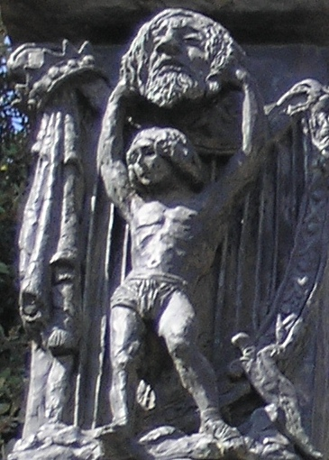 The Knesset Menorah, Jerusalem (detail - David and Goliath)